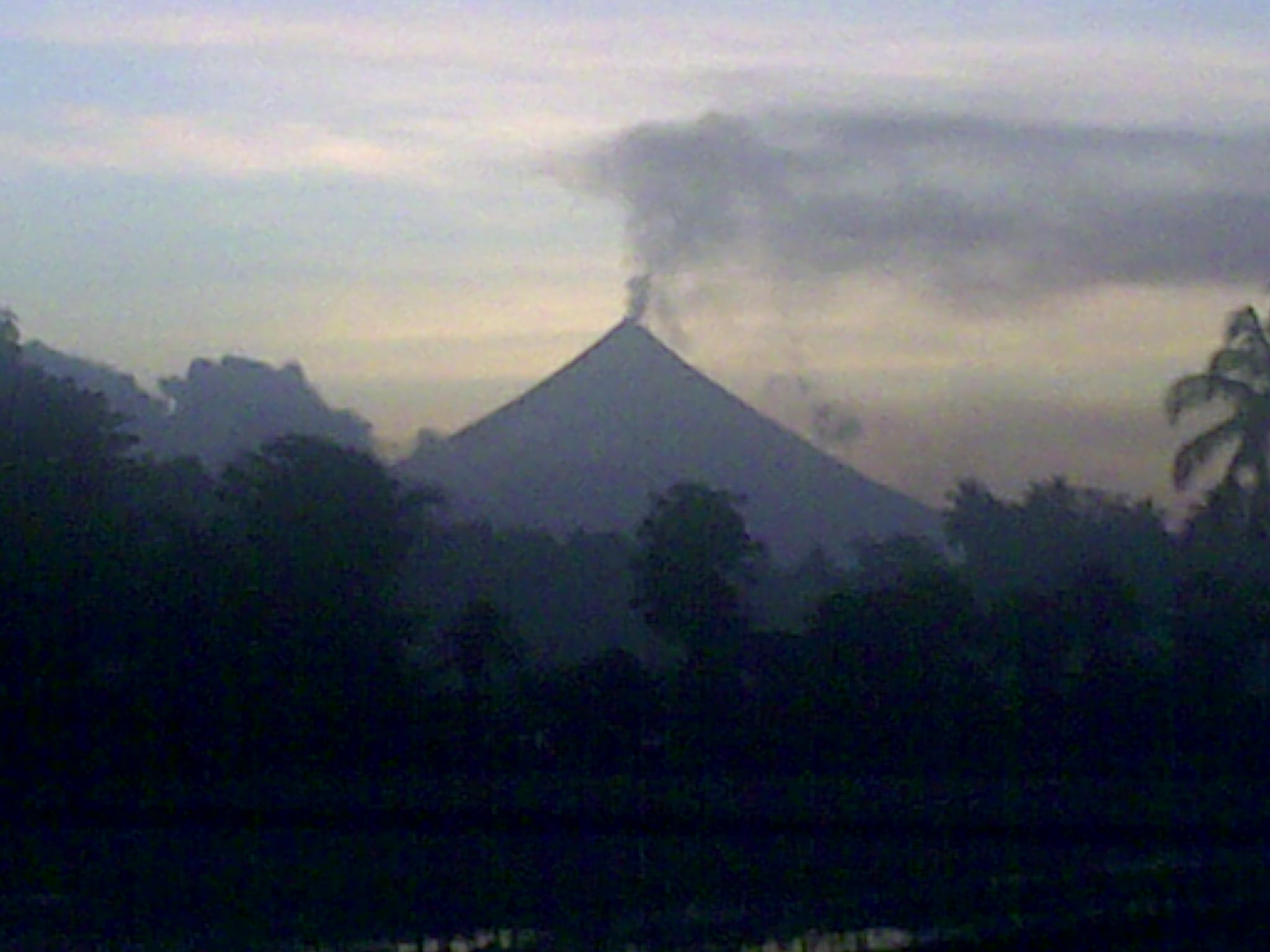 Mayon Volcano blowing ashes